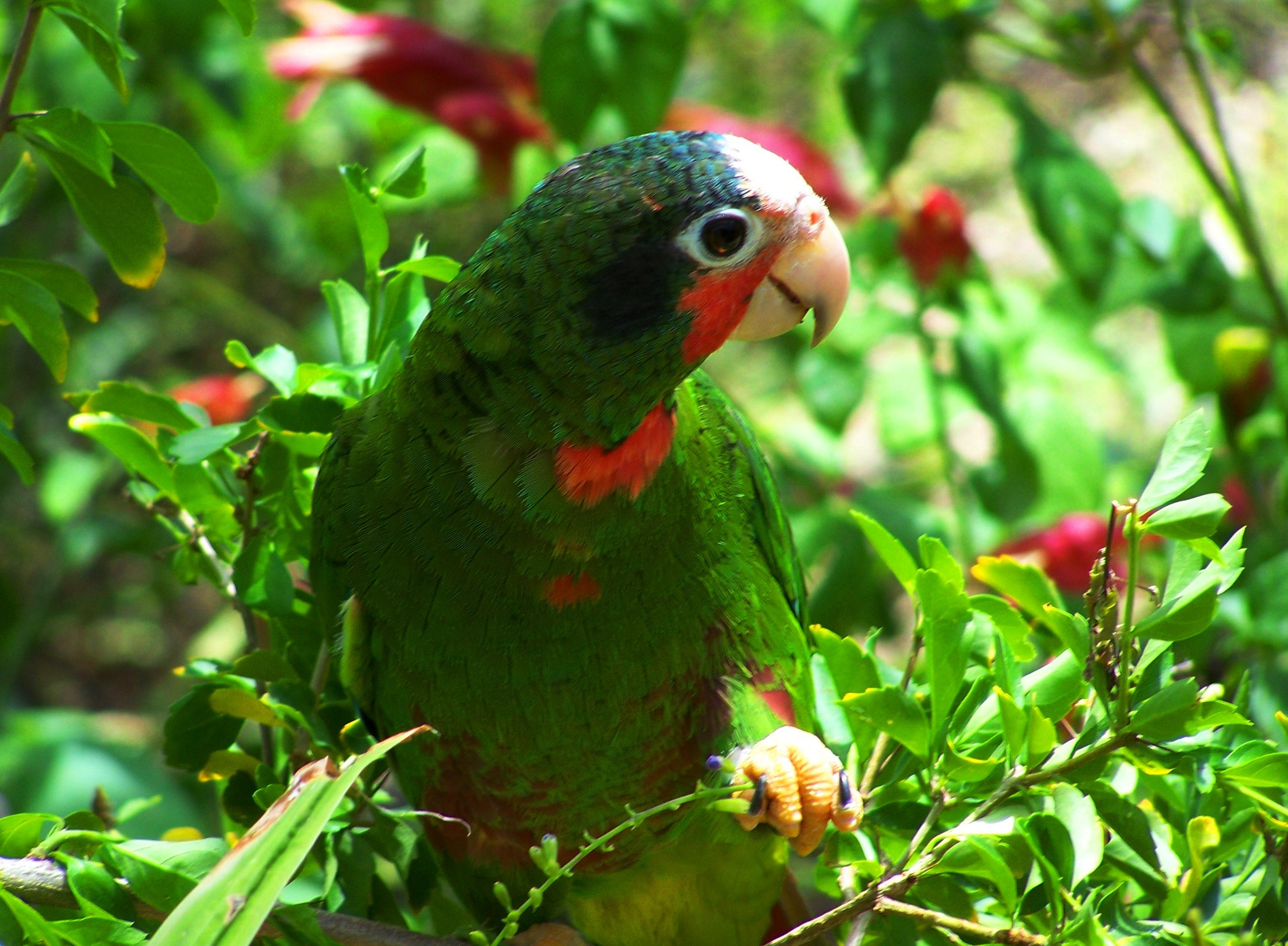 Cuban Amazon parrot on Grand Cayman Island